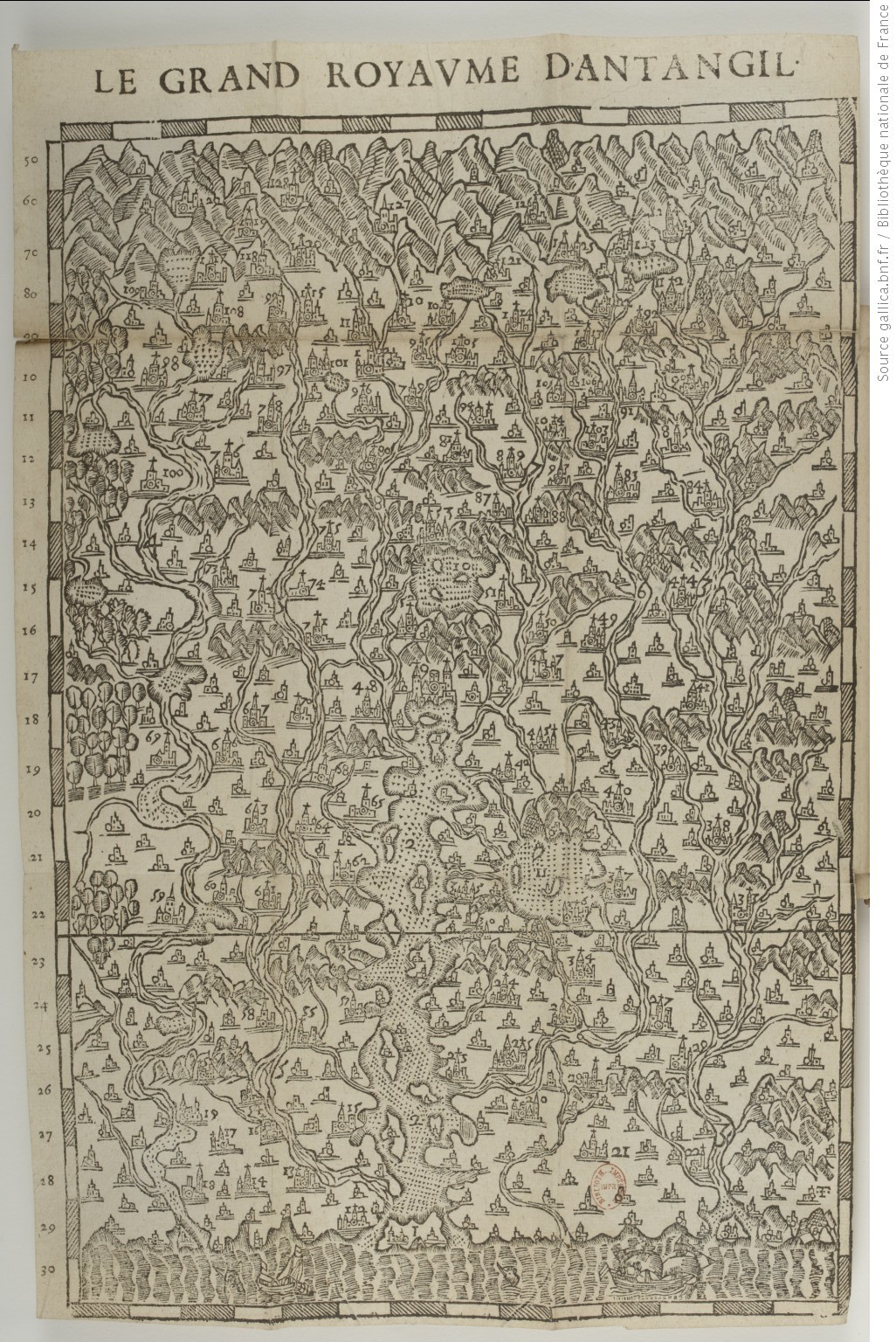 This is the map as printed in the book "Histoire du grand et admirable royaume d'Antangil" written by I.D.M.G.T. in 1616